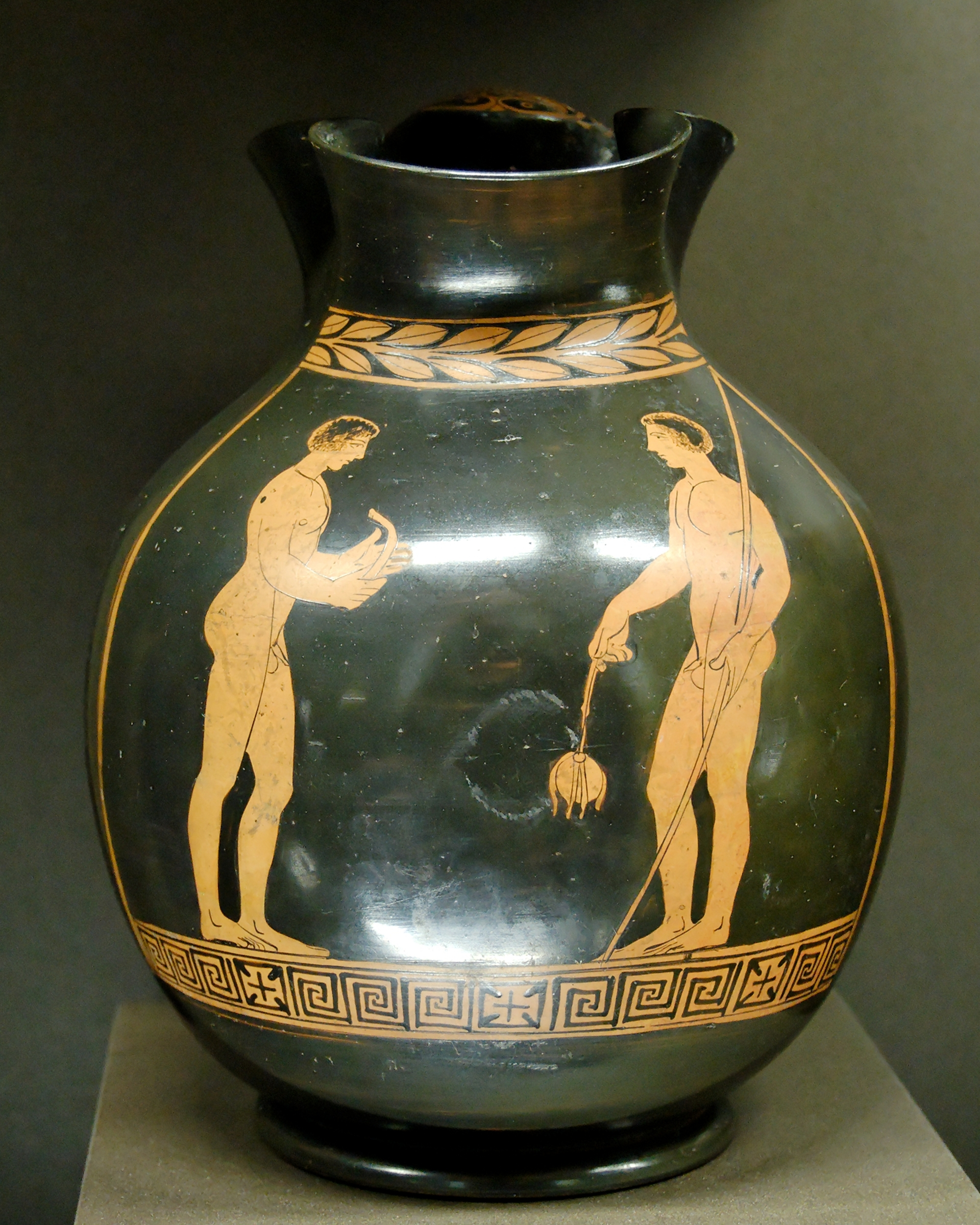 Two athletes: the one on the left holds a strigil; the one on the right an aryballos. Lucanian red-figure oinochoe, ca. 430–420 BC. From Metapontum.